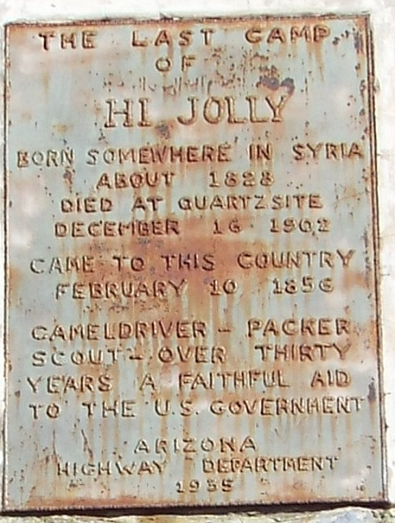 The Hi Jolly monument. The monument was listed in the National Register of Historic Places in February 28, 2011, reference #11000054. The grave is located in Quartzsite, Az.